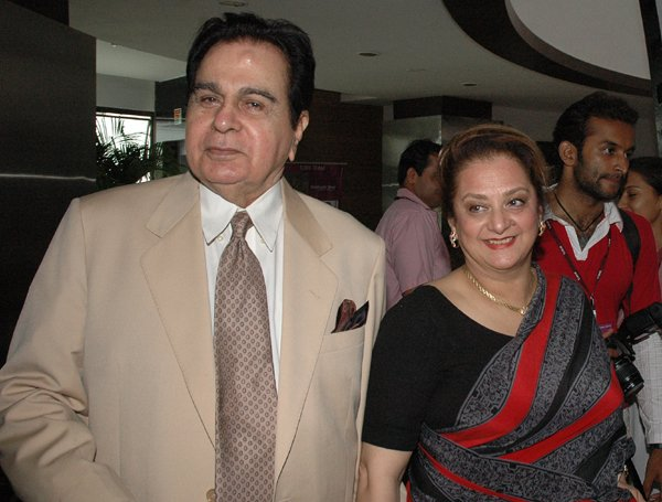 Subhash Ghai's W W I inauguration